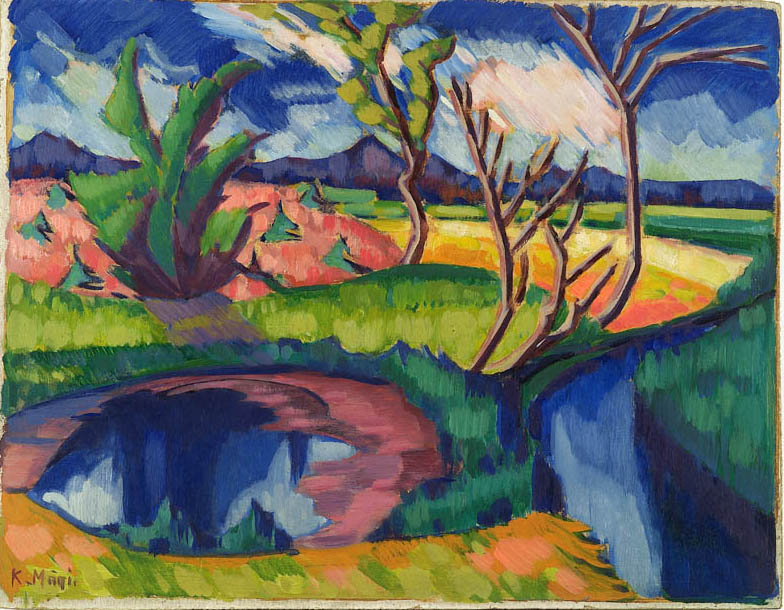 Konrad Mägi "Landscape", 1920-1921, oil on cardboard, 46,8 x 60